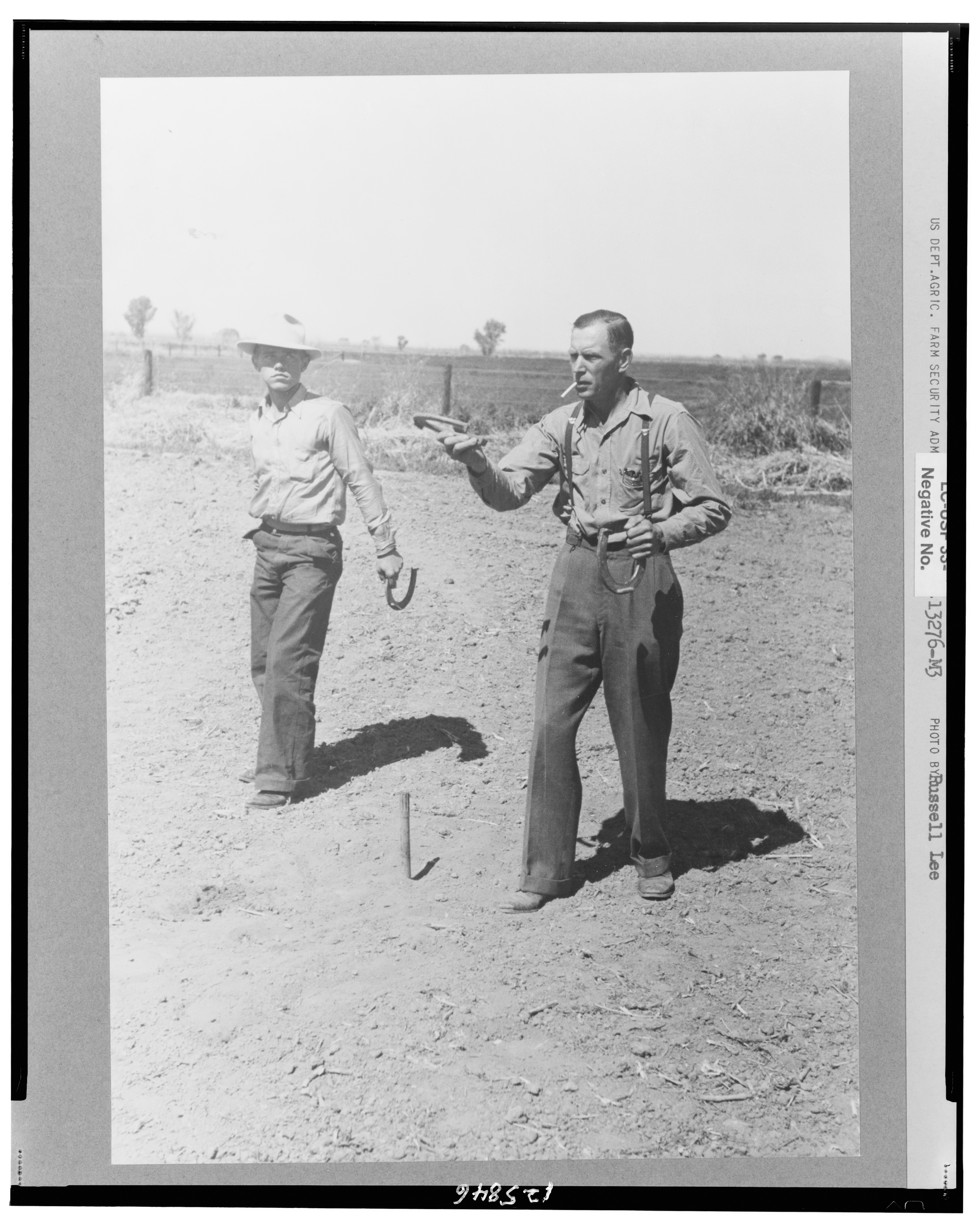 "Horseshoe pitching contest at the annual field day of the FSA (Farm Security Administration) farmworkers community, Yuma, Arizona". B&W film copy negative of print (negative: nitrate; 35 mm).